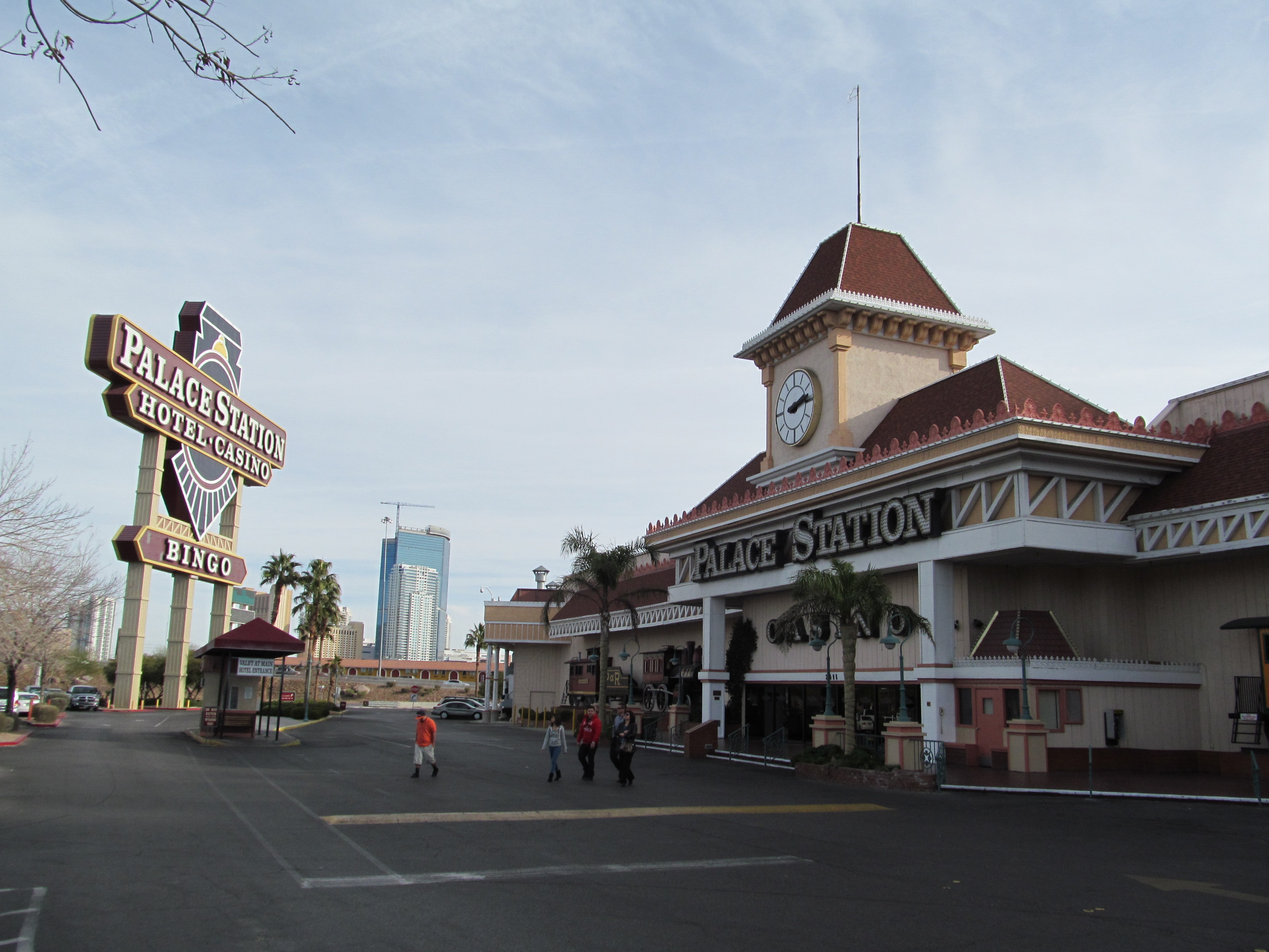 Palace Station, Las Vegas Nevada